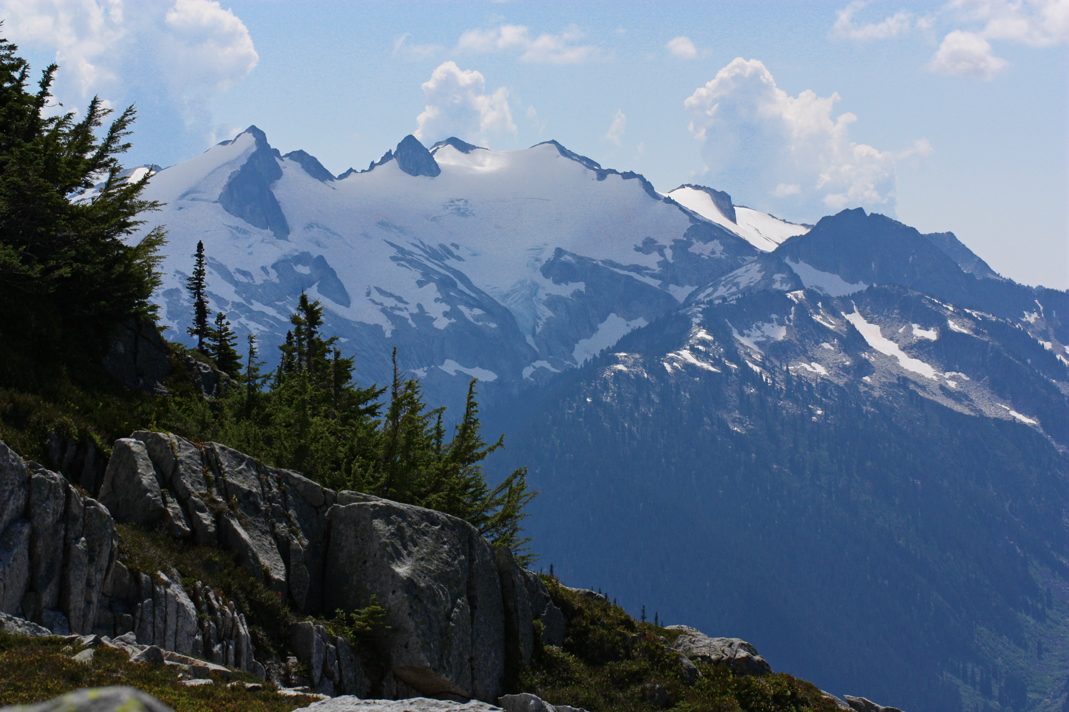 Snowking Glacier on north face of Snowking Mountain (7433'); east peak (left skyline); southwest peak (left center skyline with cloud behind) Viewpoint location: Hidden Lake Trail, Mount Baker-Snoqualmie National Forest Viewpoint elevation: 1580 meter (5185 ft) View direction: 212° Location source: Garmin GPSmap 60CSx Location Datum: WGS84